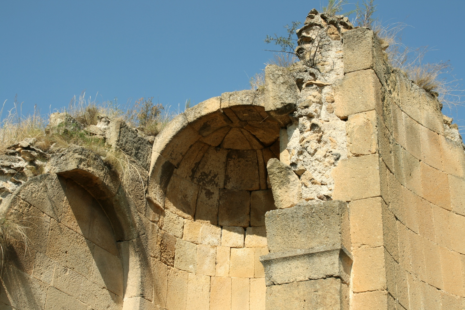 Samshvilde Sioni church. Ruins